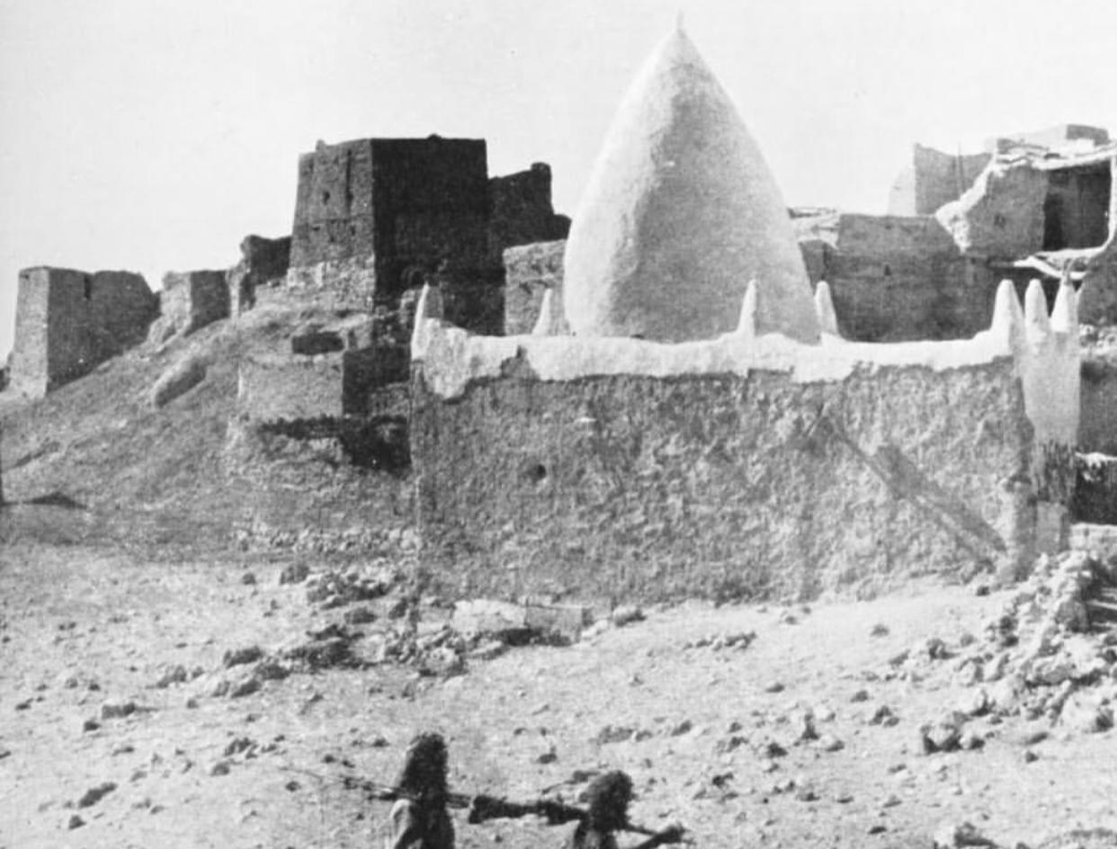 Picture of the Shrine of Sheikh Mohammed Bin Brik in Old Shabwa This photograph was filmed in 1936 by Chancellor John Philippe.